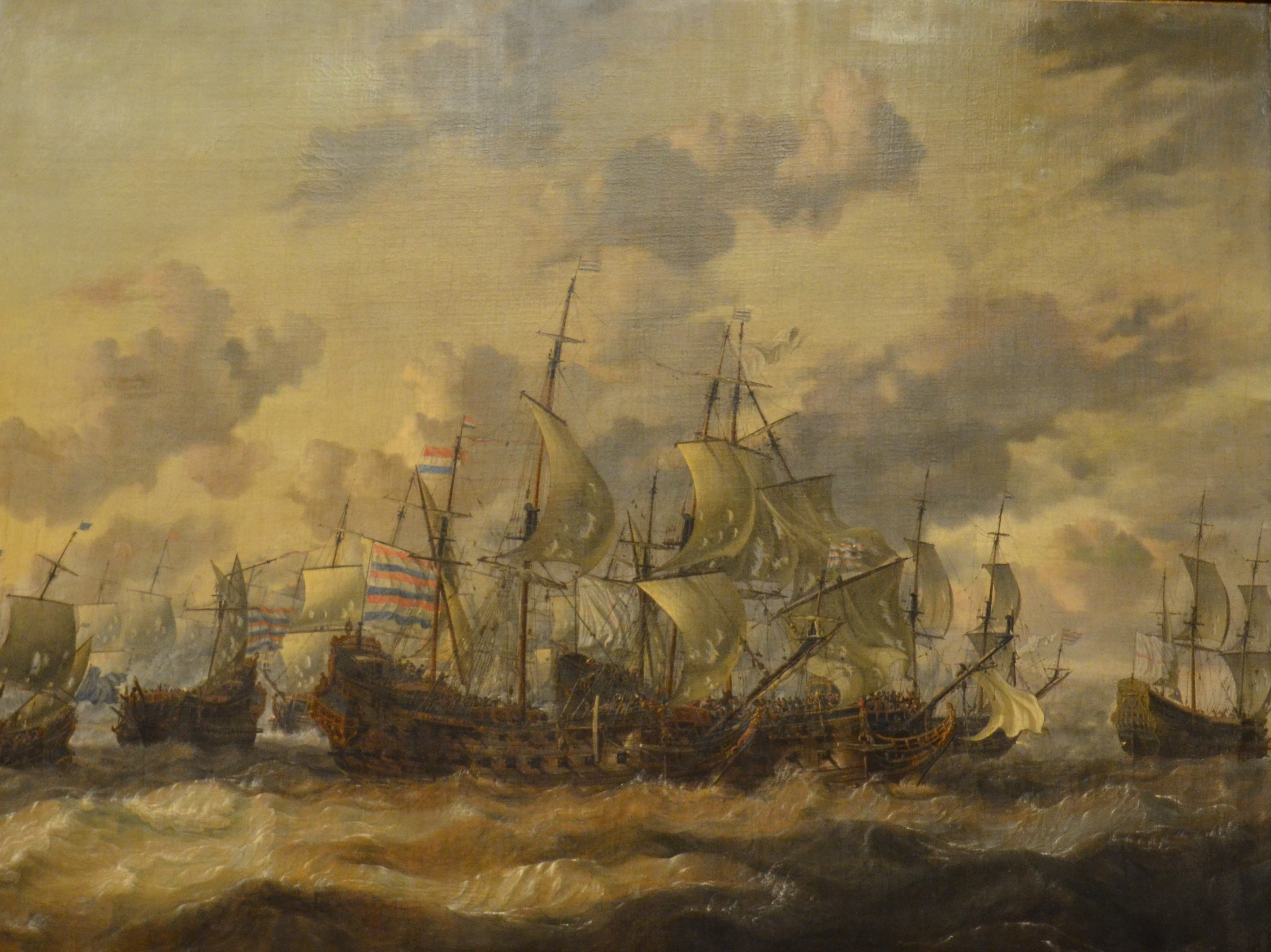 Marine painting (or his workshop), marginally cut. Painting with inventory number: XXXII:B.67. in Stockholm, Sweden. The painting depicts the Four Day Battle which was fought between the British and the Dutch fleets off the coast of Southern England in 1666. The action was inconclusive but the Dutch under de žuyster had the greater success. This painting belongs to a group of paintings of the battle by the Amsterdam marine painter Abraham Storck. None is dated but they were certainly painted long after the battle took place. The painting has previously been attributed to Willem van de Velde the Elder and Younger.